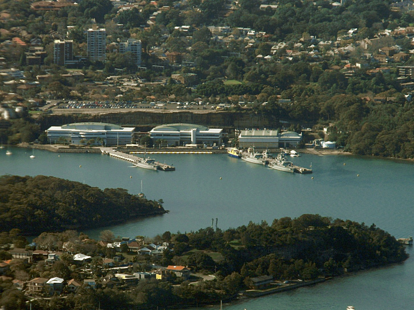 Aerial photograph of the naval base HMAS Waterhen, on Balls Head Bay, Sydney Harbour, Australia